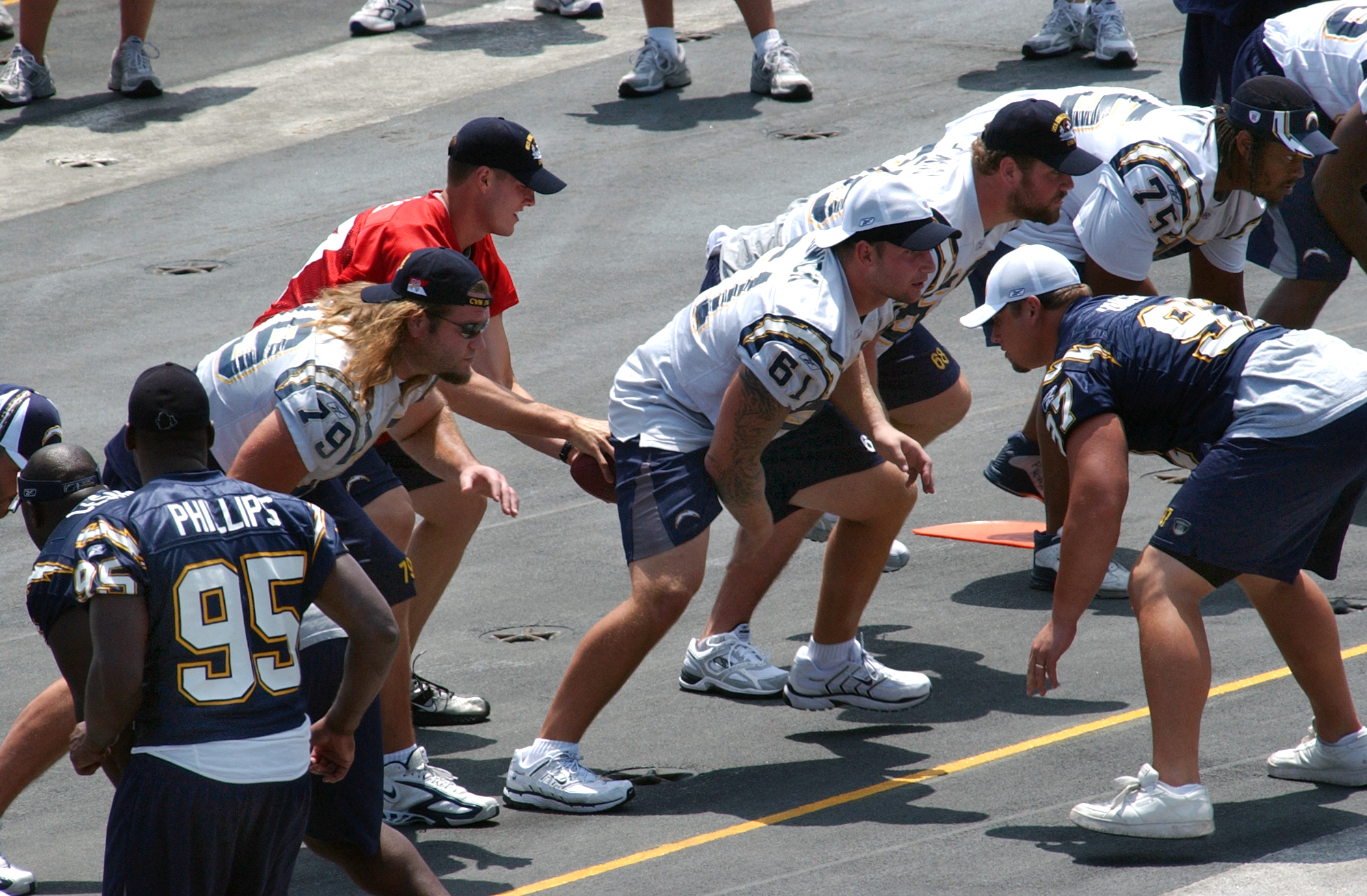 Starting Quarterback for the National Football League (NFL) San Diego Chargers, Philip Rivers (17), takes the snap from Center, Nick Hardwick (61), during a light practice on the flight deck aboard USS Ronald Reagan (CVN 76). The Chargers held practice aboard the Navy's newest nuclear powered aircraft carrier in preparation for their first pre-season game against the Green Bay Packers, August 12. During pre-game ceremonies, a military appreciation game will involve Ronald Reagan Sailors and the unfurling of a giant American display flag. Ronald Reagan is currently pier side at her homeport of San Diego after returning from its maiden deployment in July 2006.